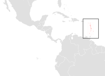 Distribution of Ardops nichollsi